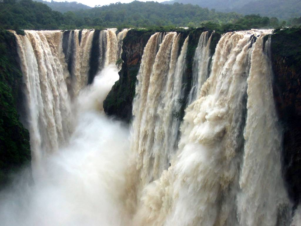 Sagar